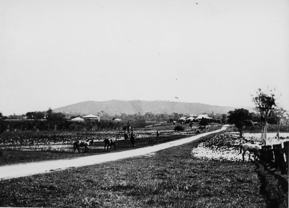 Rural scene in Oxley Road, Chelmer, Brisbane, in 1906 Rural scene in Oxley Road, Chelmer, showing the Chelmer Lagoon. There are horses roaming in the paddocks and workers in the field. An old paling fence is pictured on the right and some homesteads stand in the background. The dirt road running through the middle of the picture is Oxley Road.